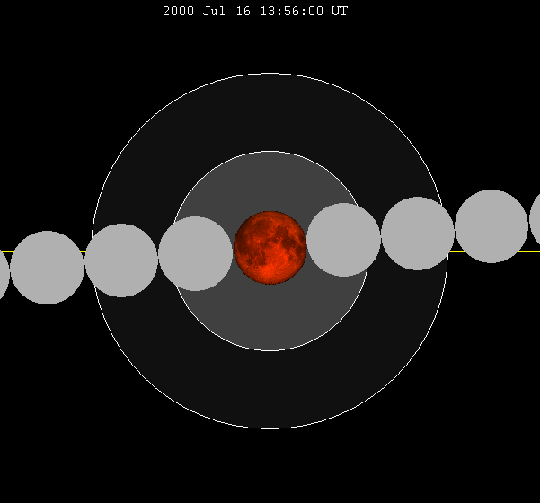 July 2000 lunar eclipse chart of moon's total lunar eclipse path through the earth's shadow. thumb